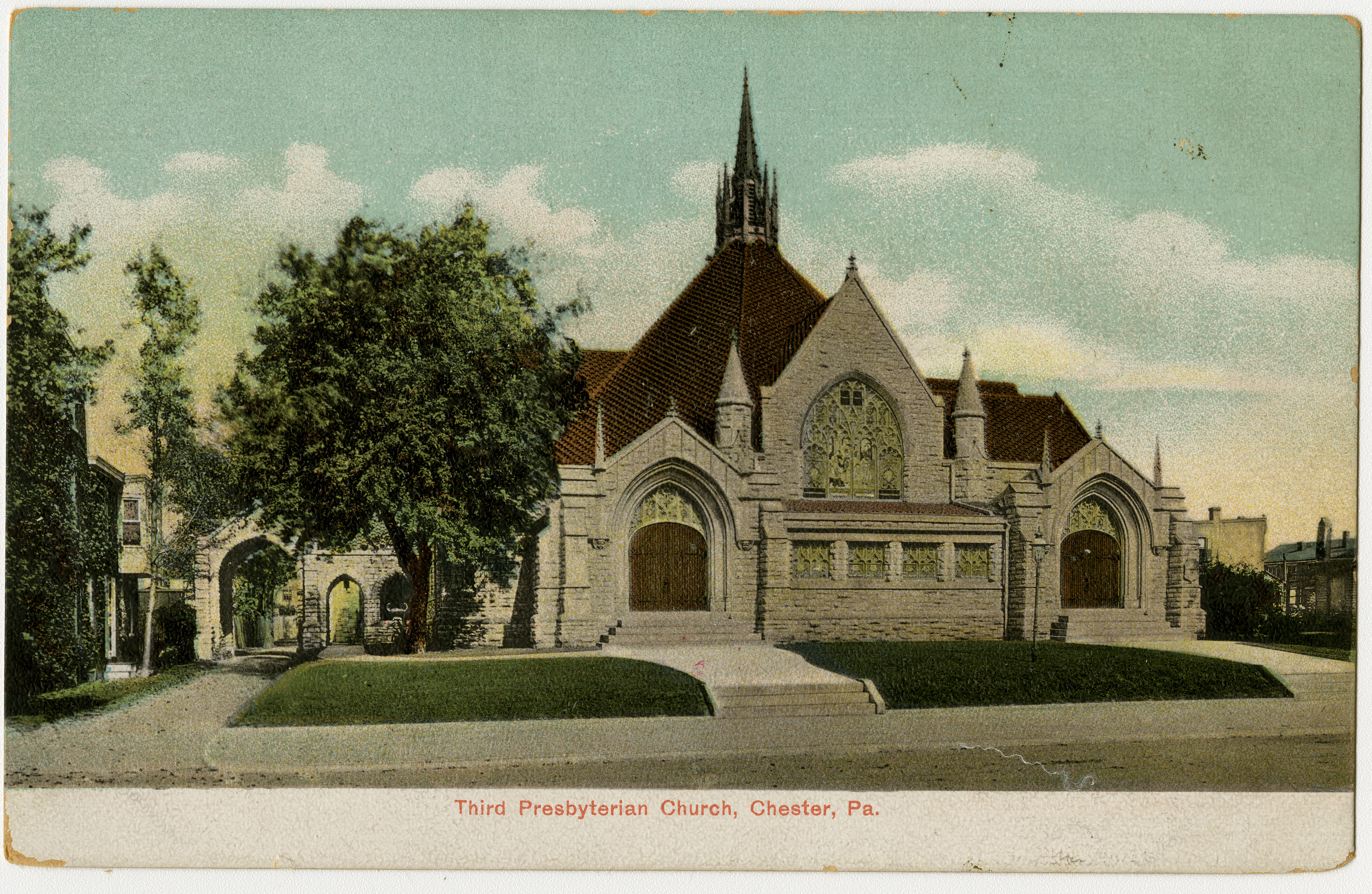 Third Presbyterian Church, Chester, Pennsylvania, on a pre-1923 postcard. From RG 428, Postcard Collection, Presbyterian Historical Society, Philadelphia, Pennsylvania.